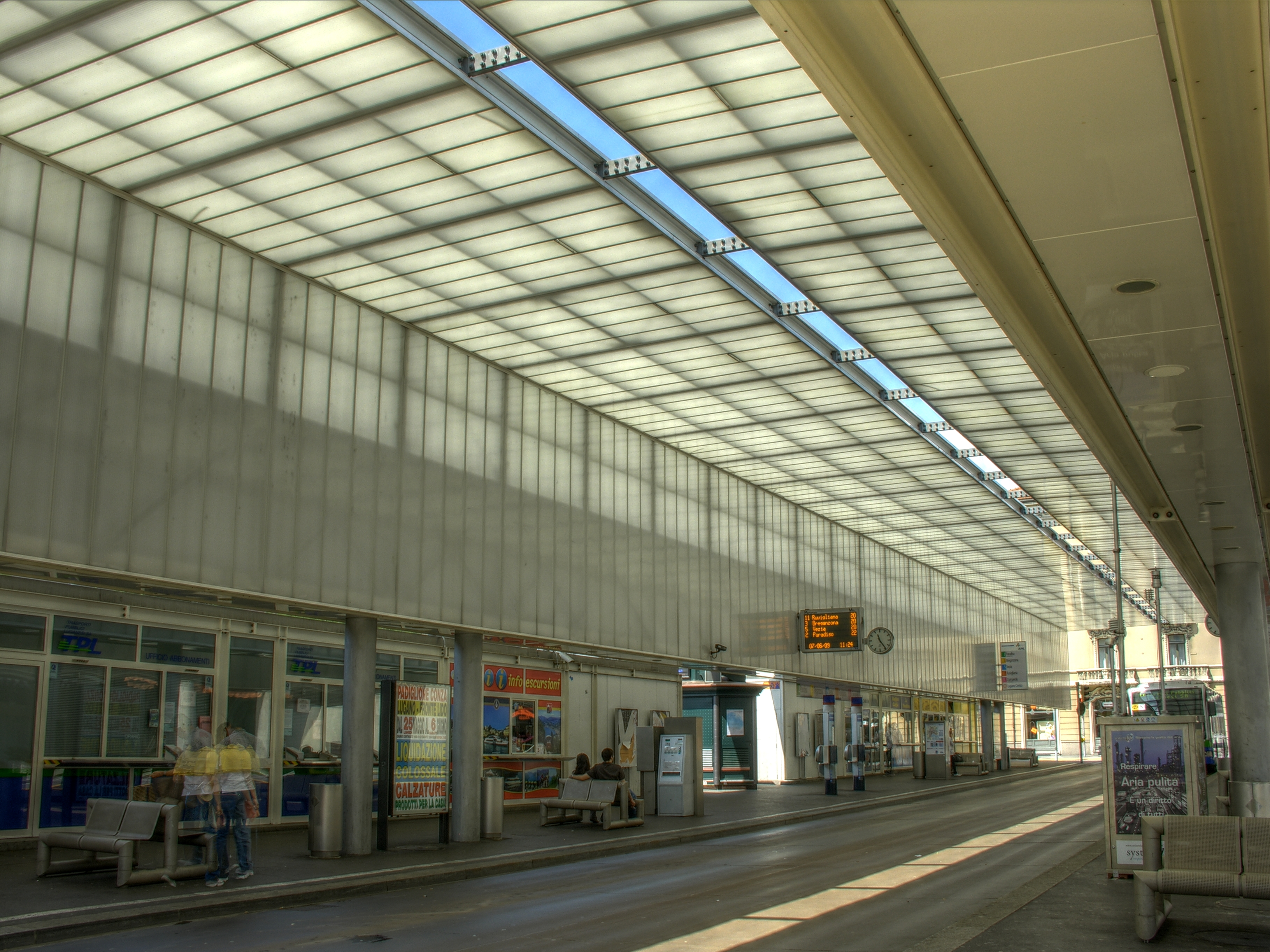 Lugano, Tessin, Switzerland - Mario Botta's TPL bus terminal - Interior view